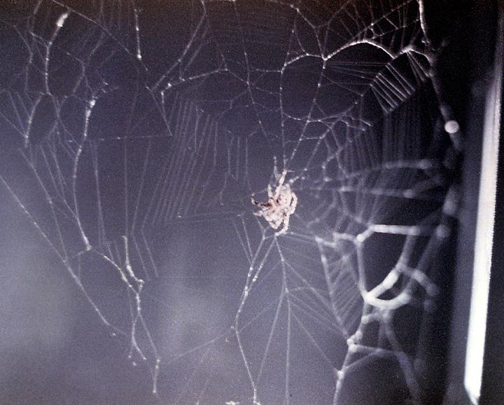 High School student Judith Miles suggested a study of two common Cross spider (Araneus diadematus) in a weightless environment. The two female spiders Arabella and Anita were part of the second Skylab crew in 1973. After some adaptation they created webs.